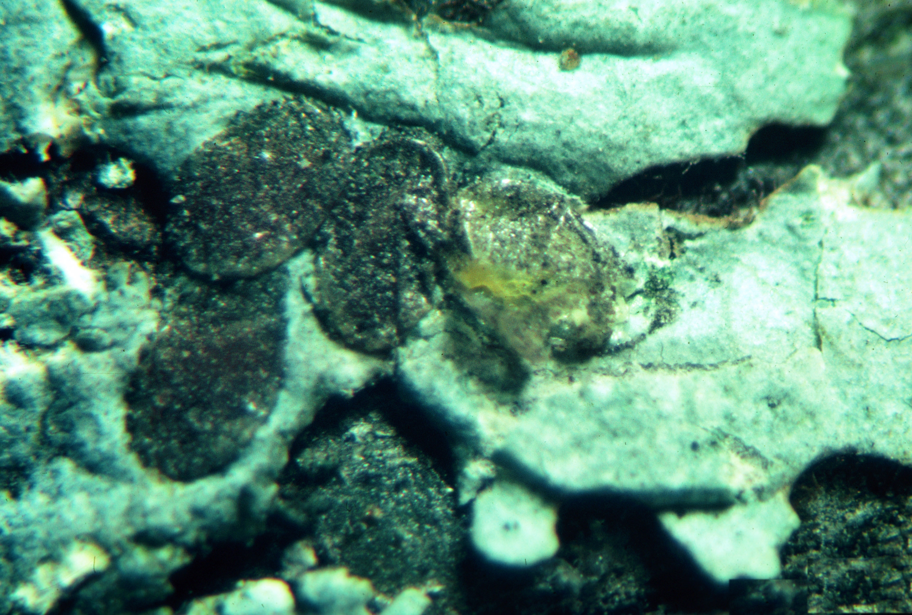 Oak leaf tier moth eggs, Croesia semipurpurana